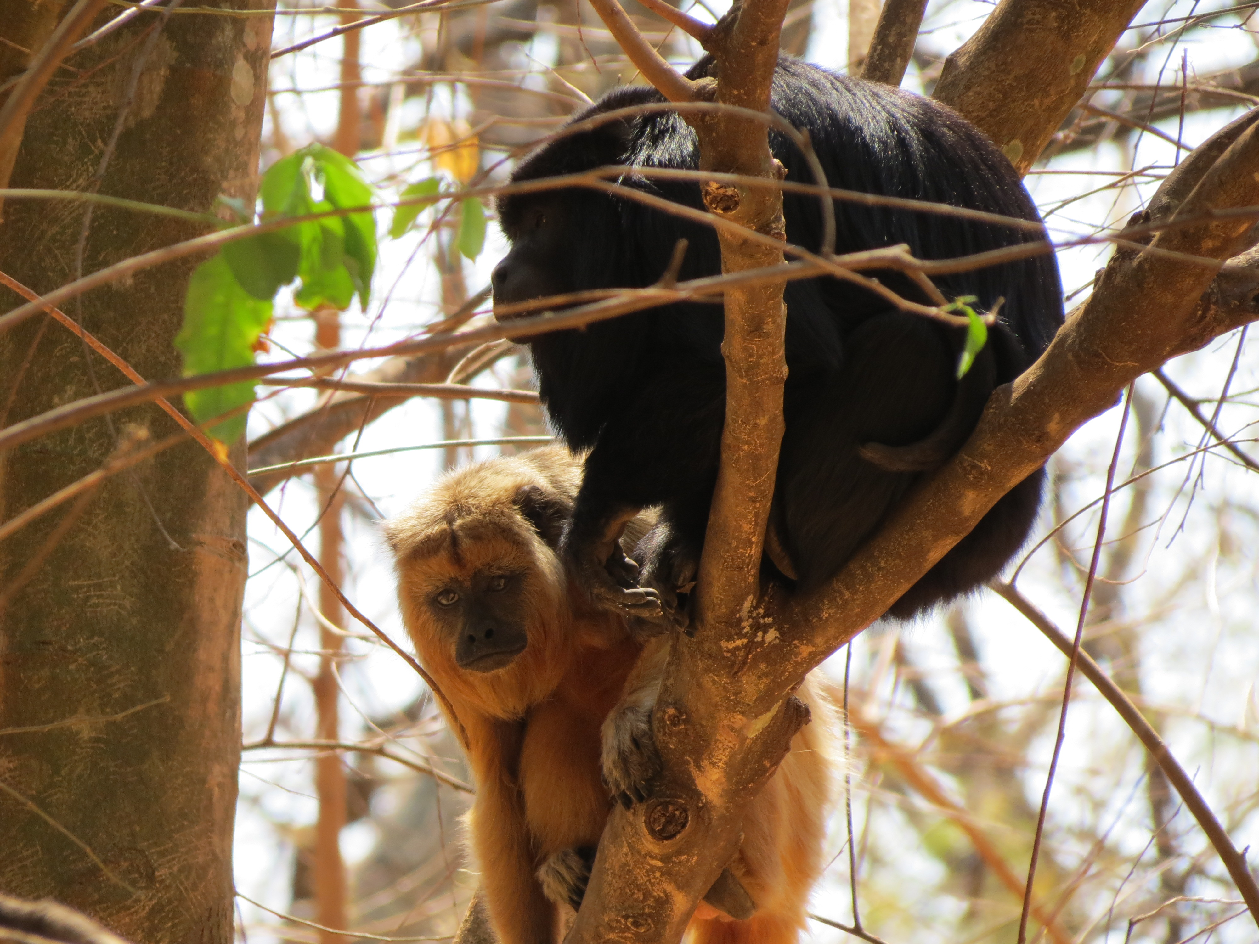 Female and male black howler monkey in a semidecidous forest remnant in Ilha Solteira, Brazil.